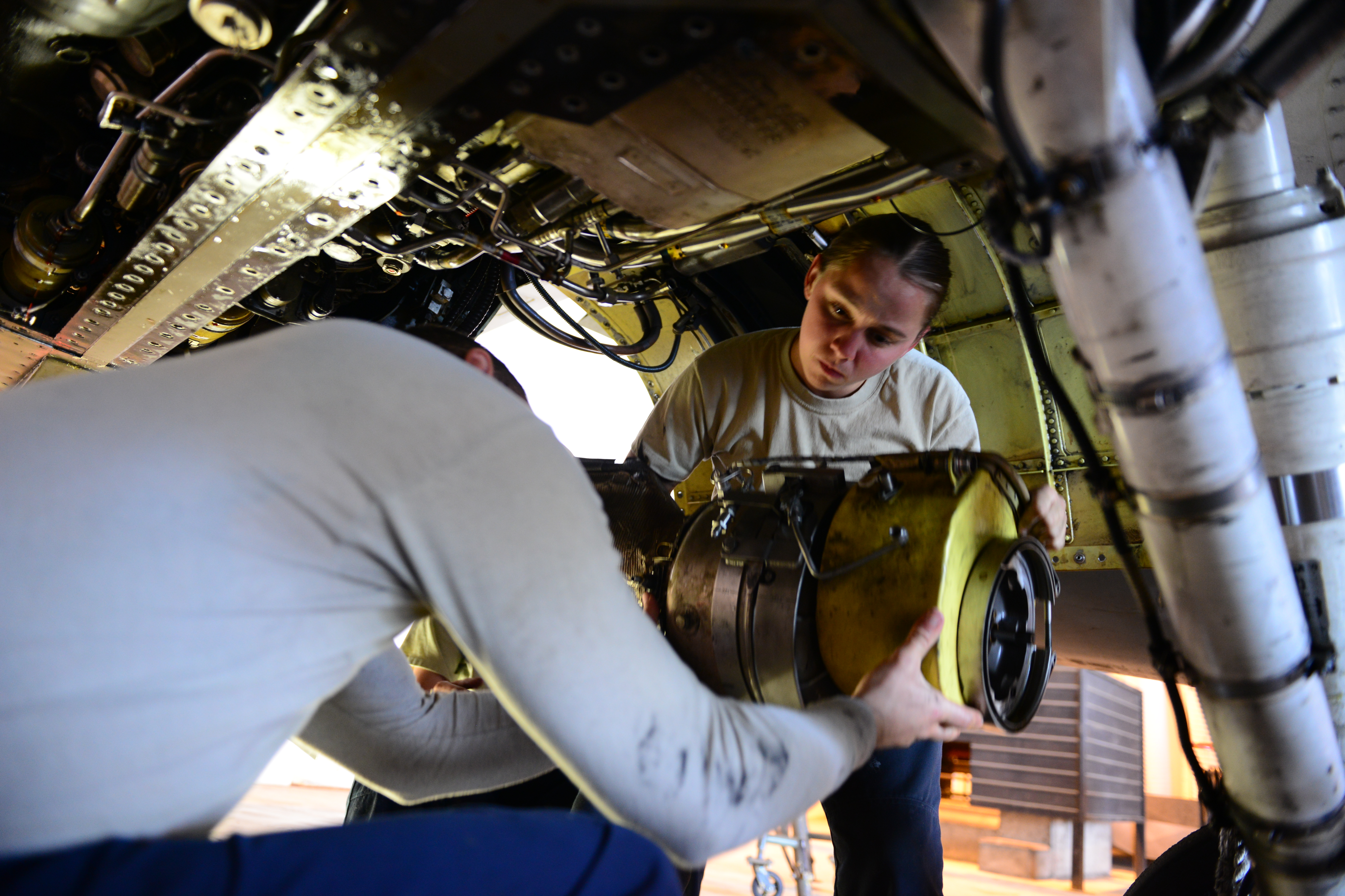 U.S. Air Force Staff Sgts. Eddie Santana, left, and AnnMarie Ringer, both crew chiefs with the 510th Aircraft Maintenance Unit, install a jet fuel starter on an F-16 Fighting Falcon aircraft May 13, 2013, at Aviano Air Base in Italy. Crew chiefs at Aviano were responsible for aircraft parts and maintenance.